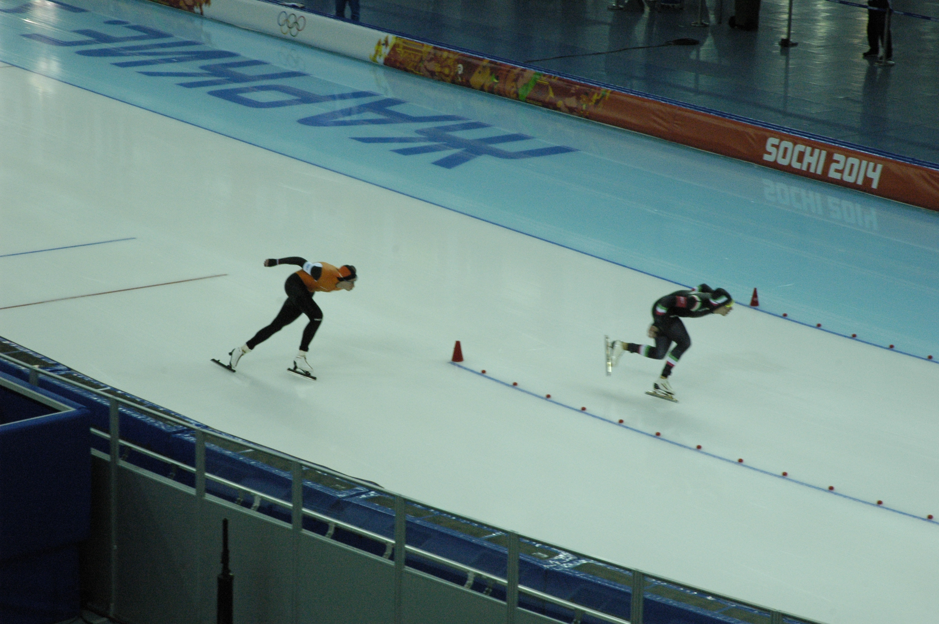 Men's 1500m, 2014 Winter Olympics, Jan Blokhuijsen & Mirko Giacomo Nenzi(2)